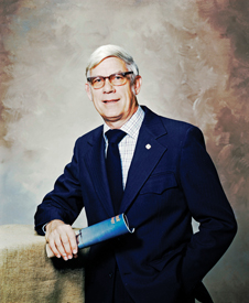 NASA photograph of Jack A. Kinzler, longtime chief of the Technical Services Center at NASA’s Lyndon B. Johnson Space Center in Houston